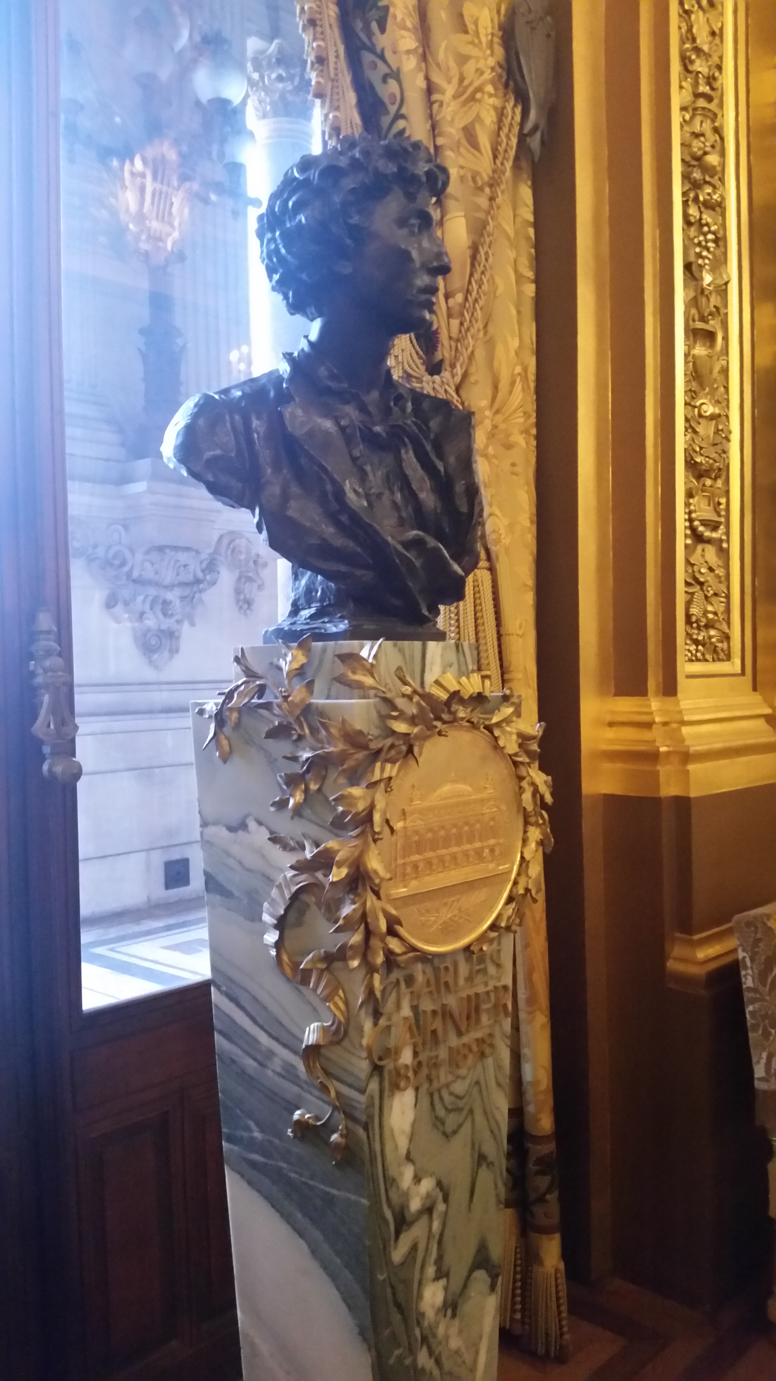 This is a chest of Charles Garnier who was born in 1825 and died in 1898